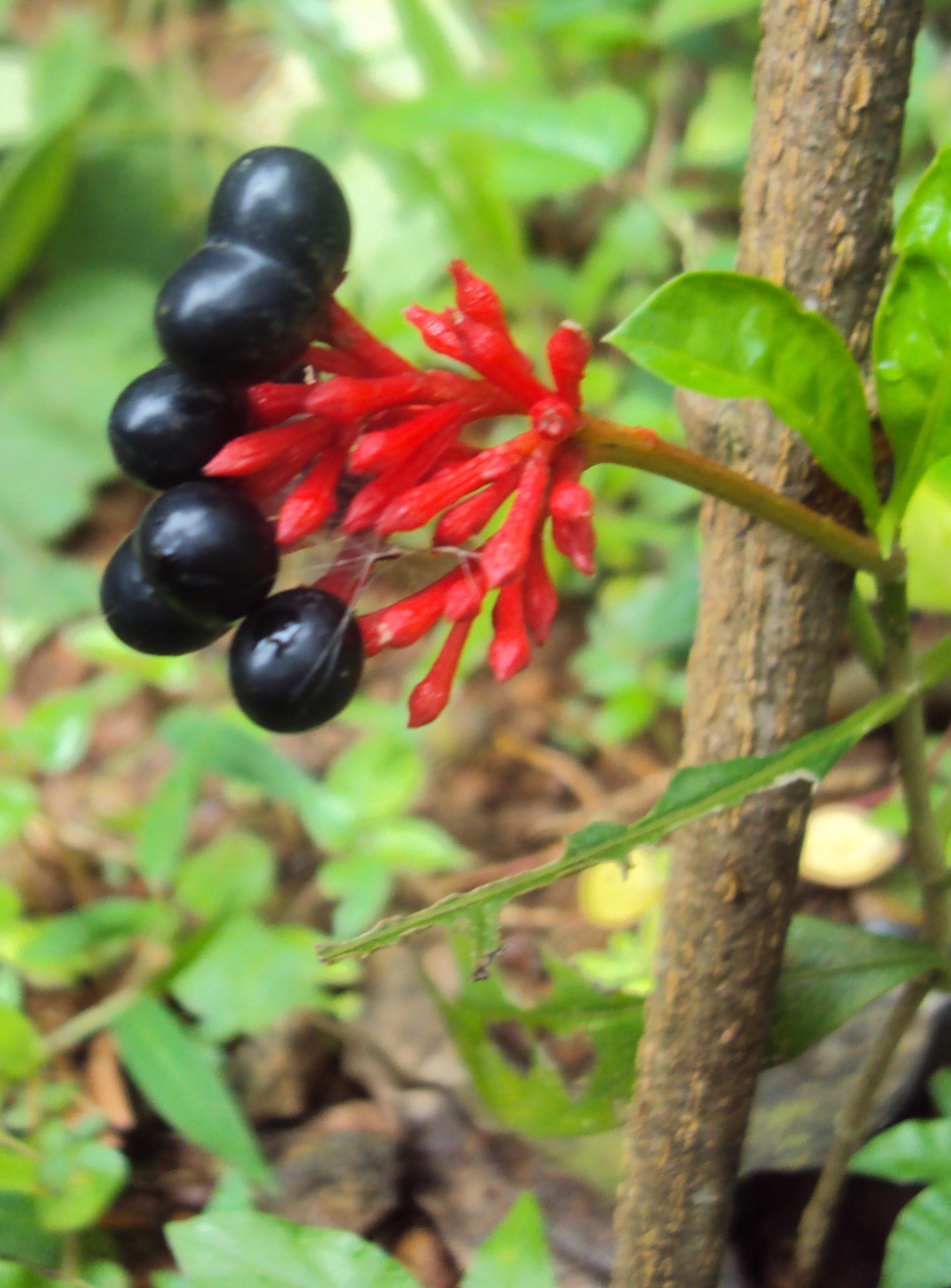 rauwolfia serpentina - സര്‍പ്പഗന്ധി